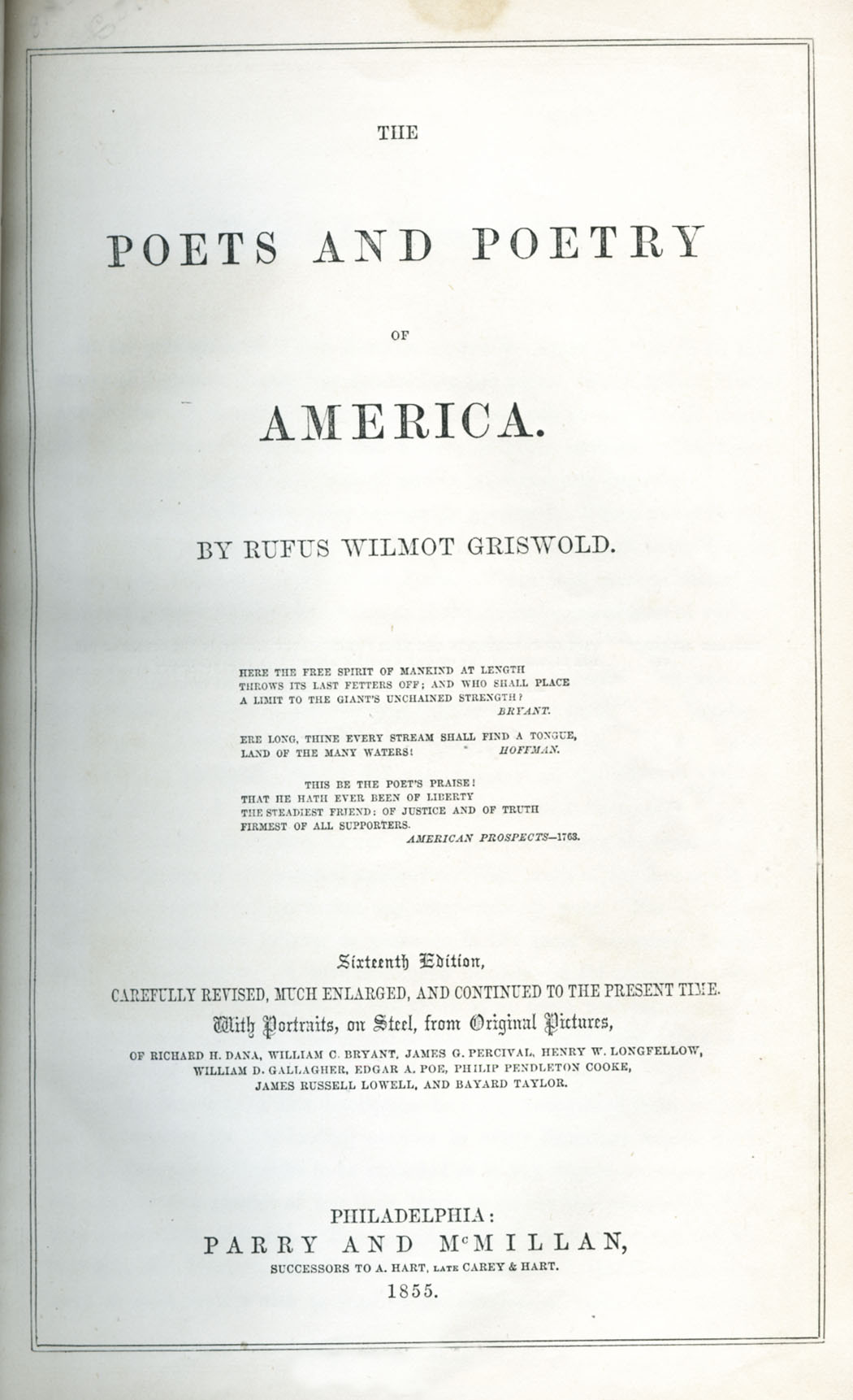 Title page of The Poets and Poetry of America as anthologized by Rufus Wilmot Griswold. Note: digitally removed some library markings.